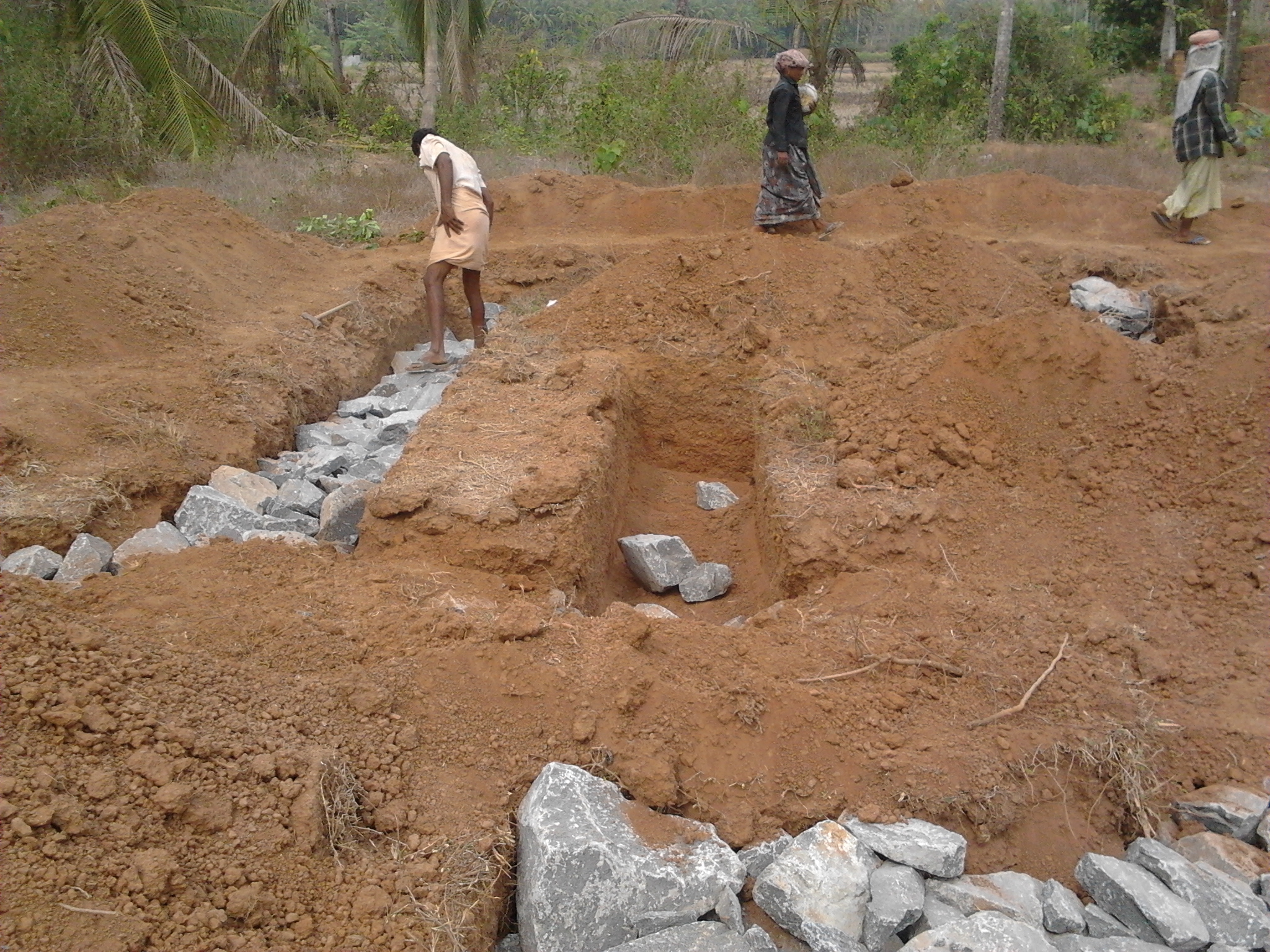 Random rubble masonry